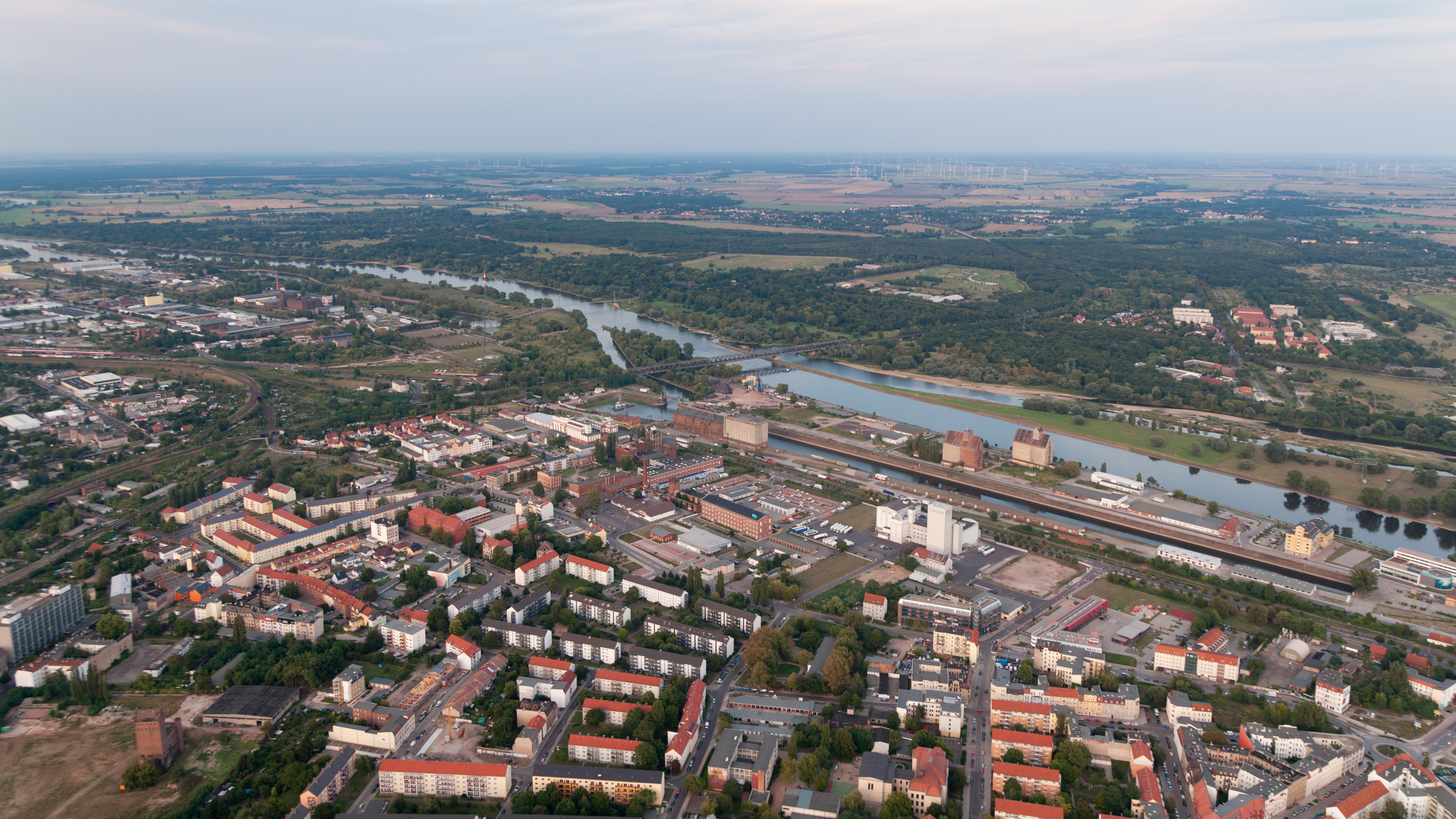 Aerial photograph of the district Alte Neustadt in Magdeburg